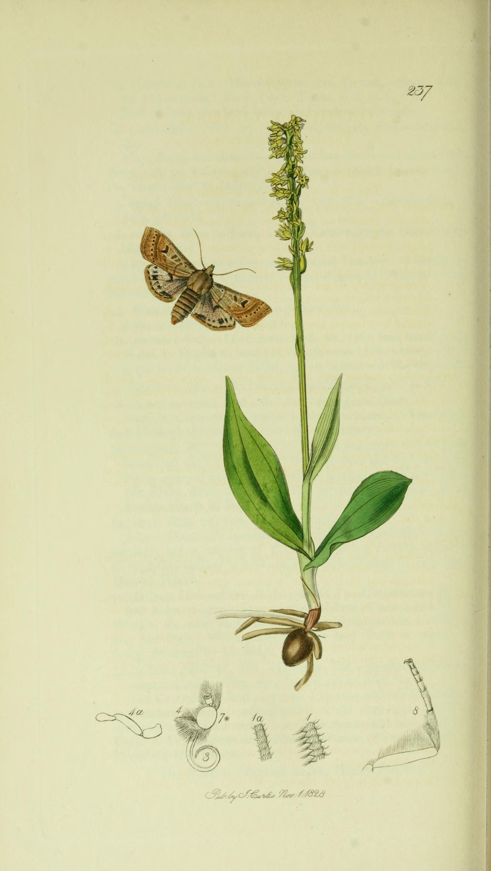 An illustration from British Entomology by John Curtis. Orthosia lunosa or Omphaloscelis lunosa (Lunar Underwing).